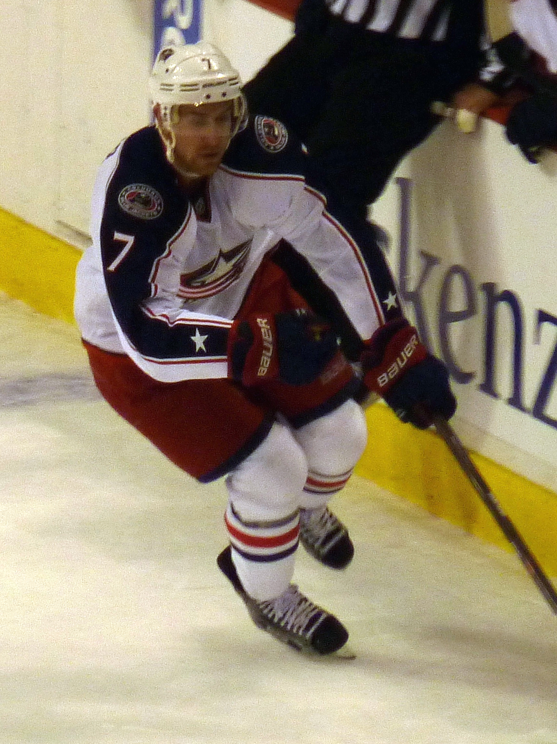 Columbus Blue Jackets forward Jeff Carter during a game against the Vancouver Canucks on November 29, 2011.